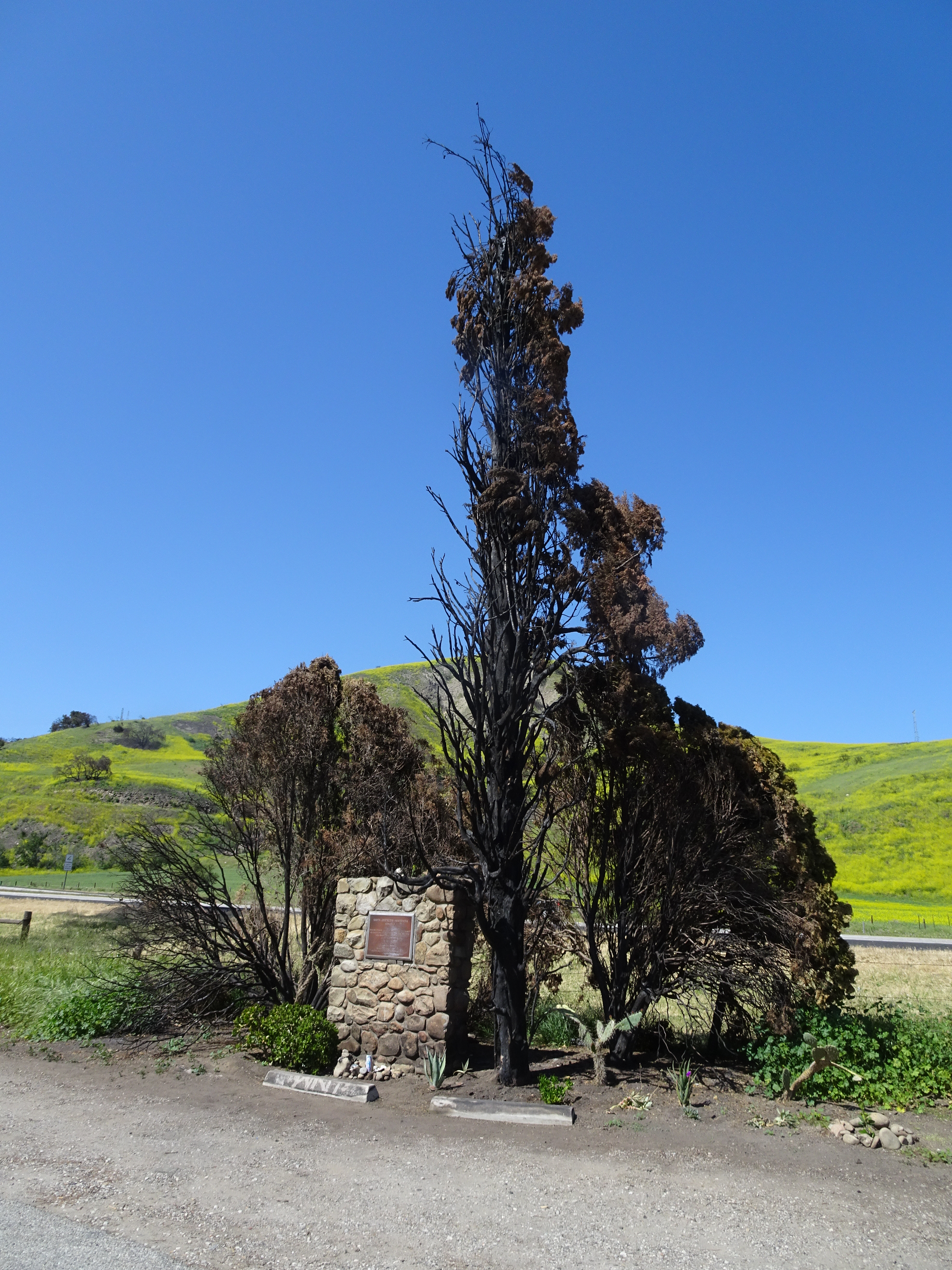 View of the Santa Gertrudis Asistencia Memorial, North Ventura Avenue, Ventura, California